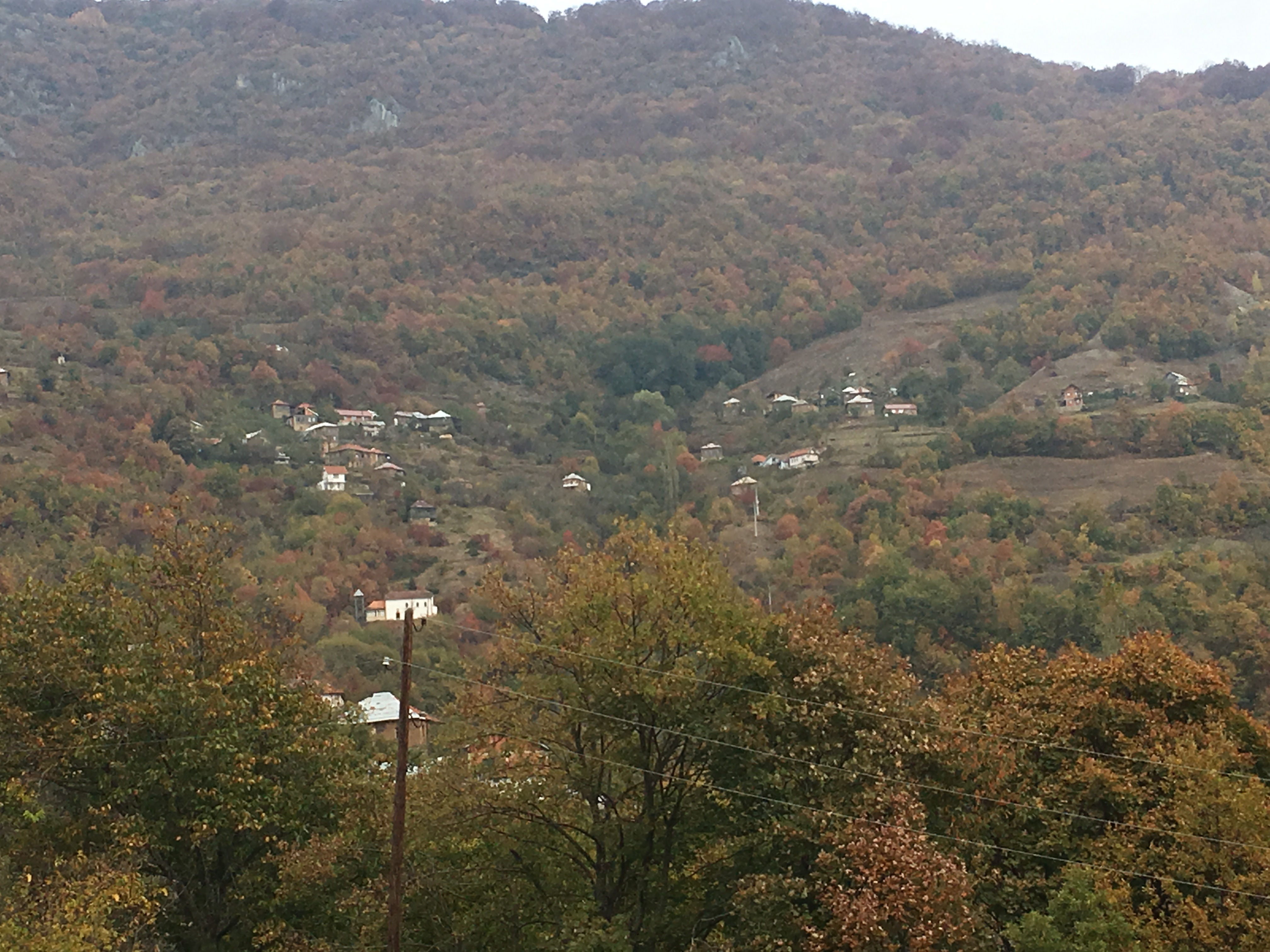 Wikiexpedition to Kopačka